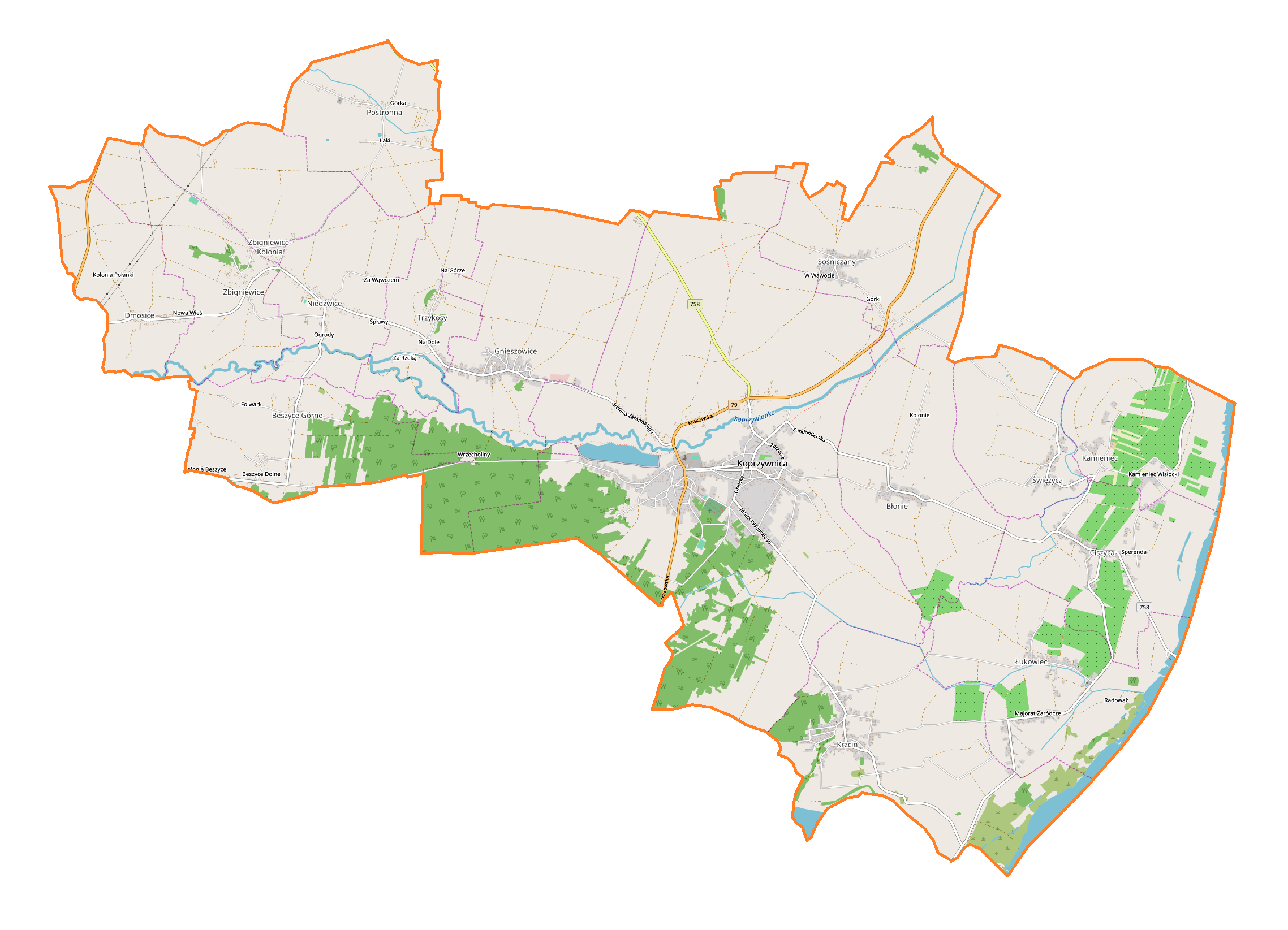 Location map